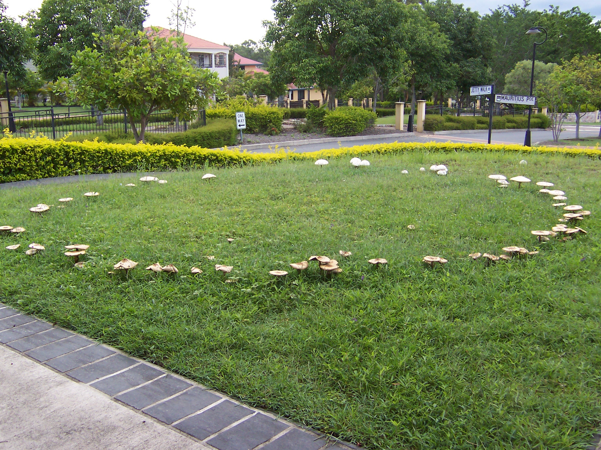 Fairy Circle on a suburban lawn. Forest Lake, south of Brisbane in Queensland